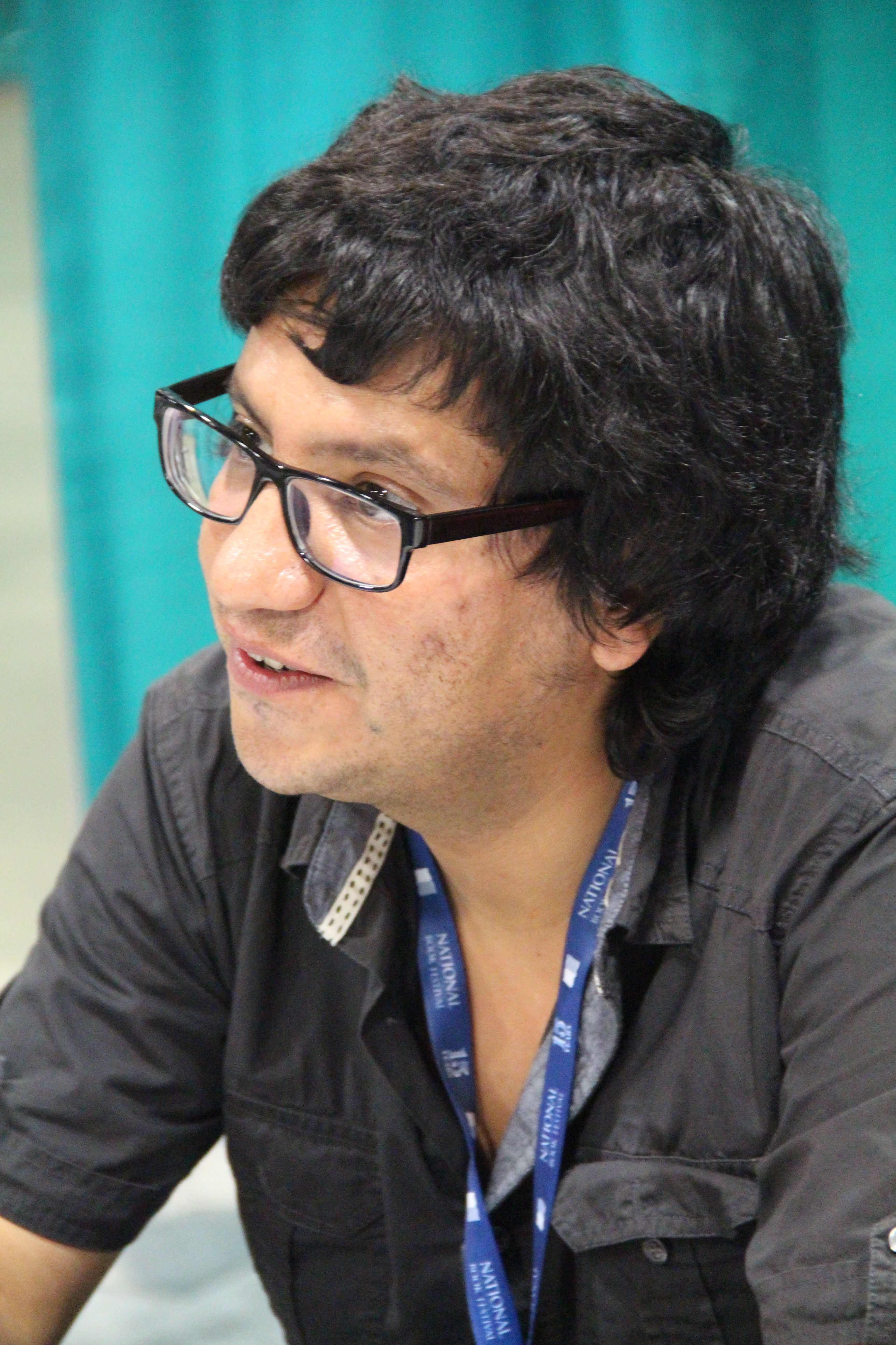 2015 Library of Congress National Book Festival September 5, 2015 Washington, DC